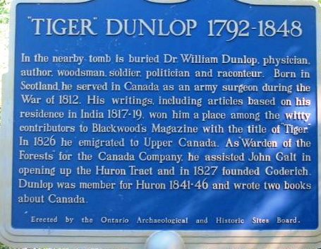 Image of Plague erected by Ontario Archeological and Historic Sites Board for William Tiger Dunlop. N 43 45.538 W 81 42.086